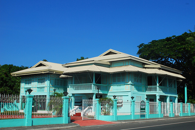 Castillejos, Zambales[1] is a municipality in the province of Zambales, Philippines. Castillejos is now a developing municipality because it has some commercial establishments like 7-eleven, Chic-boy, Andoks, and RM Mall which is the first mall in the town. The settlement we now know as Castillejos was founded sometime in the middle of the 18th century. According to Agustin Dela Cavada in his Historias Filipinas, the creation of Castillejos took place – 1743, while that of Subic in 1769. Jose Angelo M. Dominguez Mayor – July 1, 2010 – present[2]